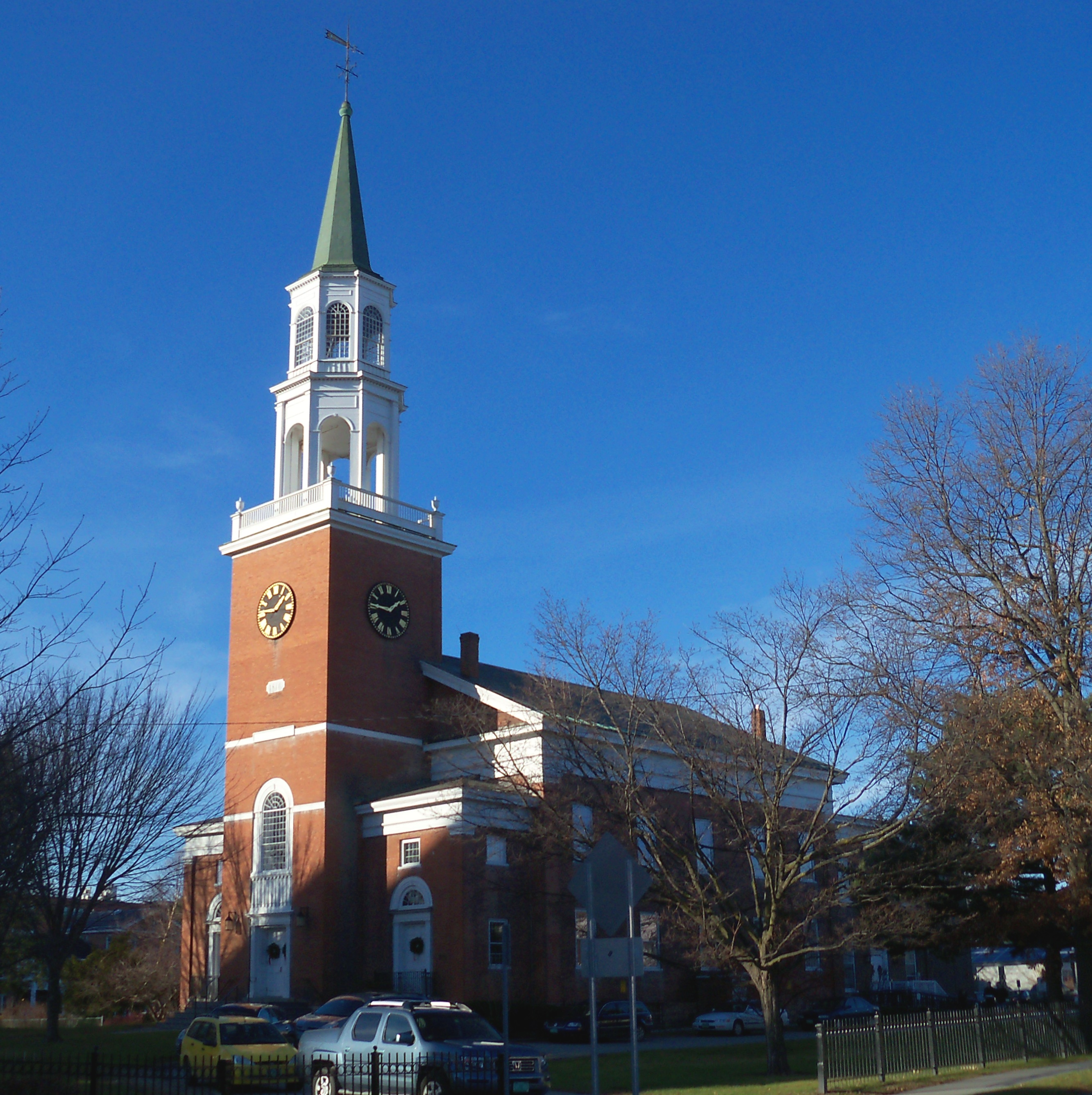 Unitarian church in Burlington, Vermont, USA.